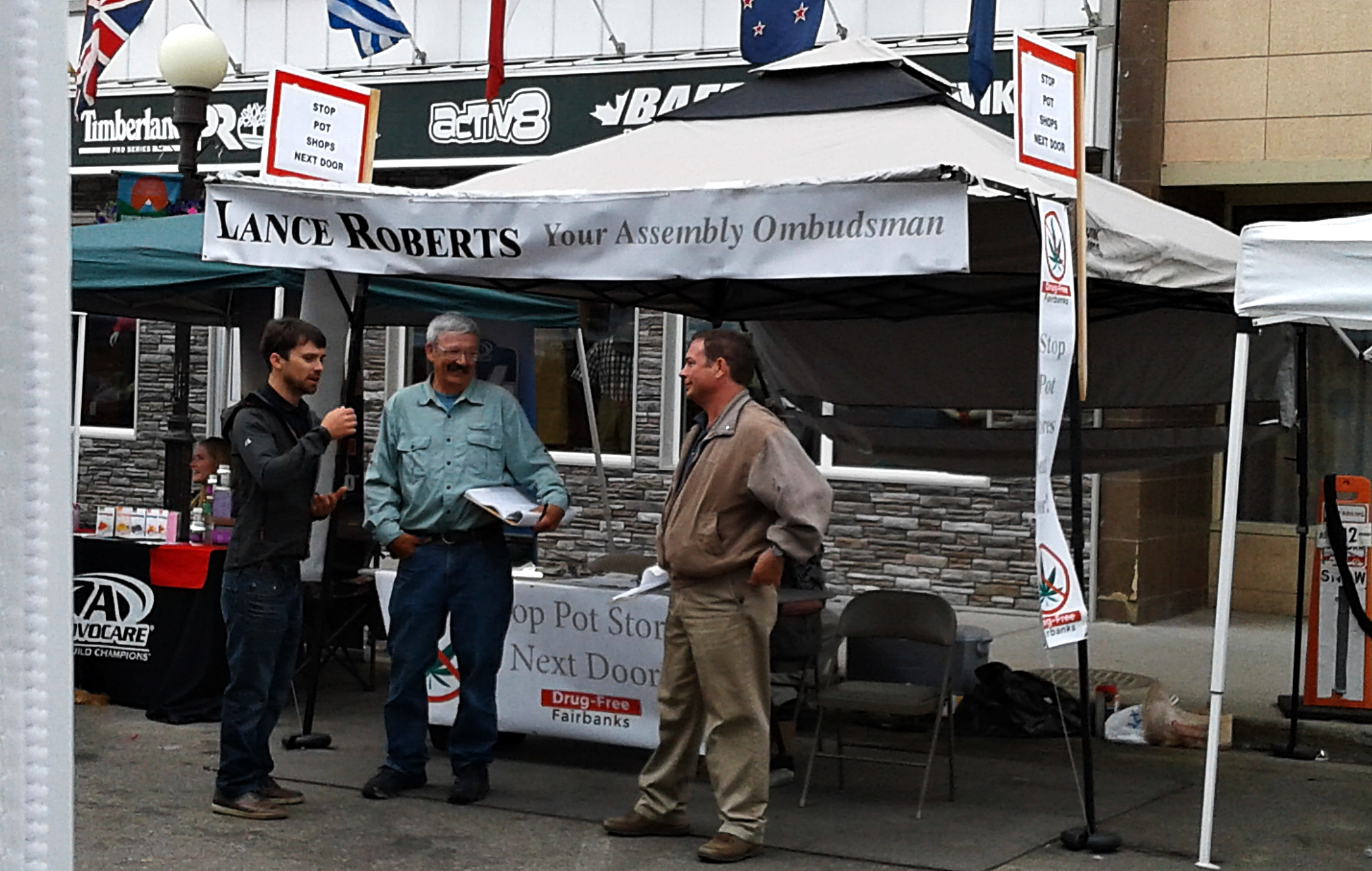 At center (or at the right of the three persons pictured) is Lance John Roberts (born 1965), a member of the Fairbanks North Star Borough assembly and conservative Republican Party activist. Roberts is campaigning for an initiative to amend borough ordinance to disallow cannabis shops from opening outside of the borough's incorporated cities. The various signage at his booth reads "Stop Pot Shops (or Stores) Next Door".